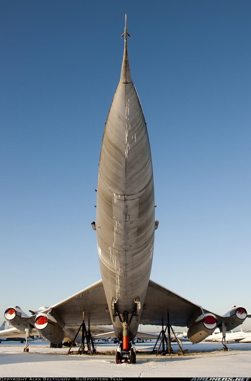 A Myasishchev M-50 stored at The Central Museum of the Air Forces in Monino, Russia